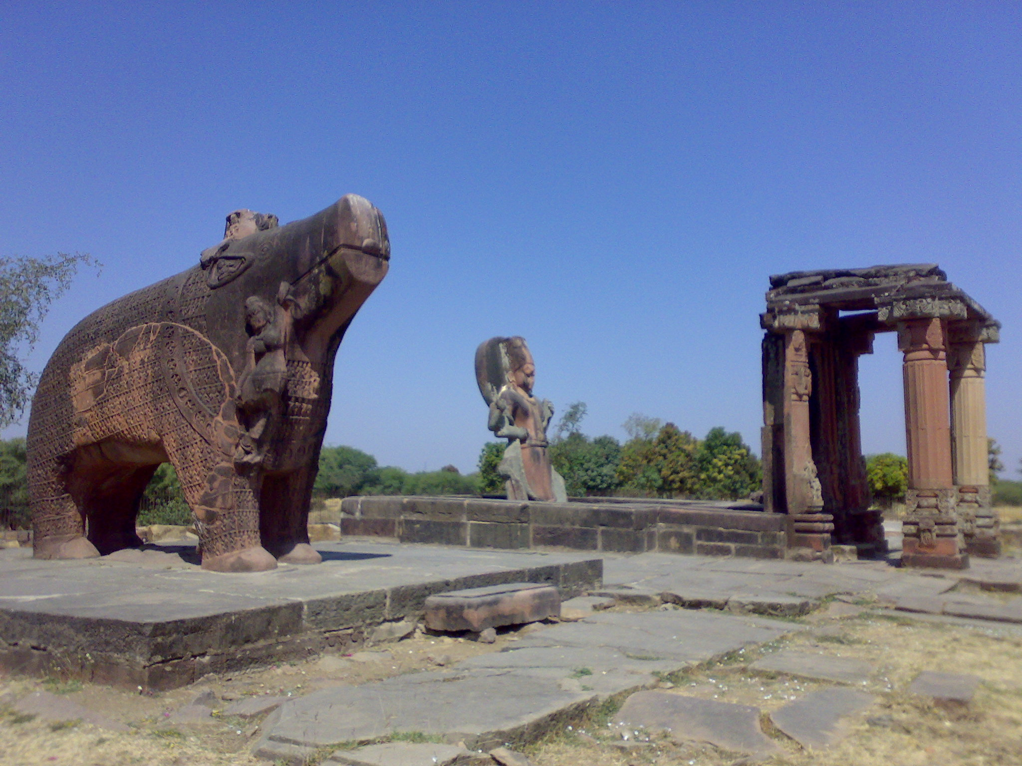 Eran Near Bina